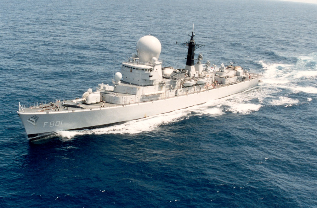 Royal Netherlands Navy frigate Hr. Ms. Tromp (F801)